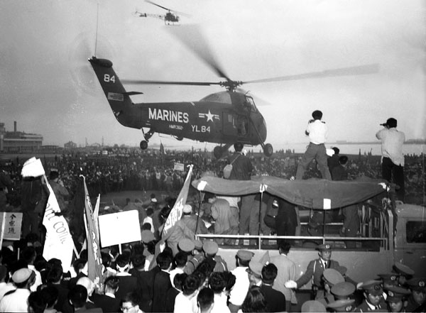 Hagerty Incident: The Treaty of Mutual Cooperation and Security between the United States and Japan had been signed in Washington on 19 January 1960. When the pact was submitted to the Japanese National Diet for ratification on 5 February it became the subject of bitter debate over the Japan-United States relationship and the occasion for violence in an all-out effort by the leftist opposition to prevent its passage. It was finally approved by the House of Representatives on 20 May. Japan Socialist Party deputies boycotted the lower house session and tried to prevent the LDP deputies from entering the chamber; they were forcibly removed by the police. Massive demonstrations and rioting by students and trade unions followed. These outbursts prevented a scheduled visit to Japan by President Dwight D. Eisenhower and precipitated the resignation of Prime Minister Nobusuke Kishi, but not before the treaty was passed by default on 19 June 1960. On 10 June 1960, the press secretary of the U.S. President Eisenhower, James Campbell Hagerty, arrived at Haneda Airport, Tokyo (Japan), to plan the upcoming visit of the president. While attempting to leave the airport for the U.S. embassy, Hagerty’s car was immobilized for an hour before he could be retrieved by a U.S. Marine Corps HUS-1 helicopter from Marine Medium Helicopter Squadron 362.